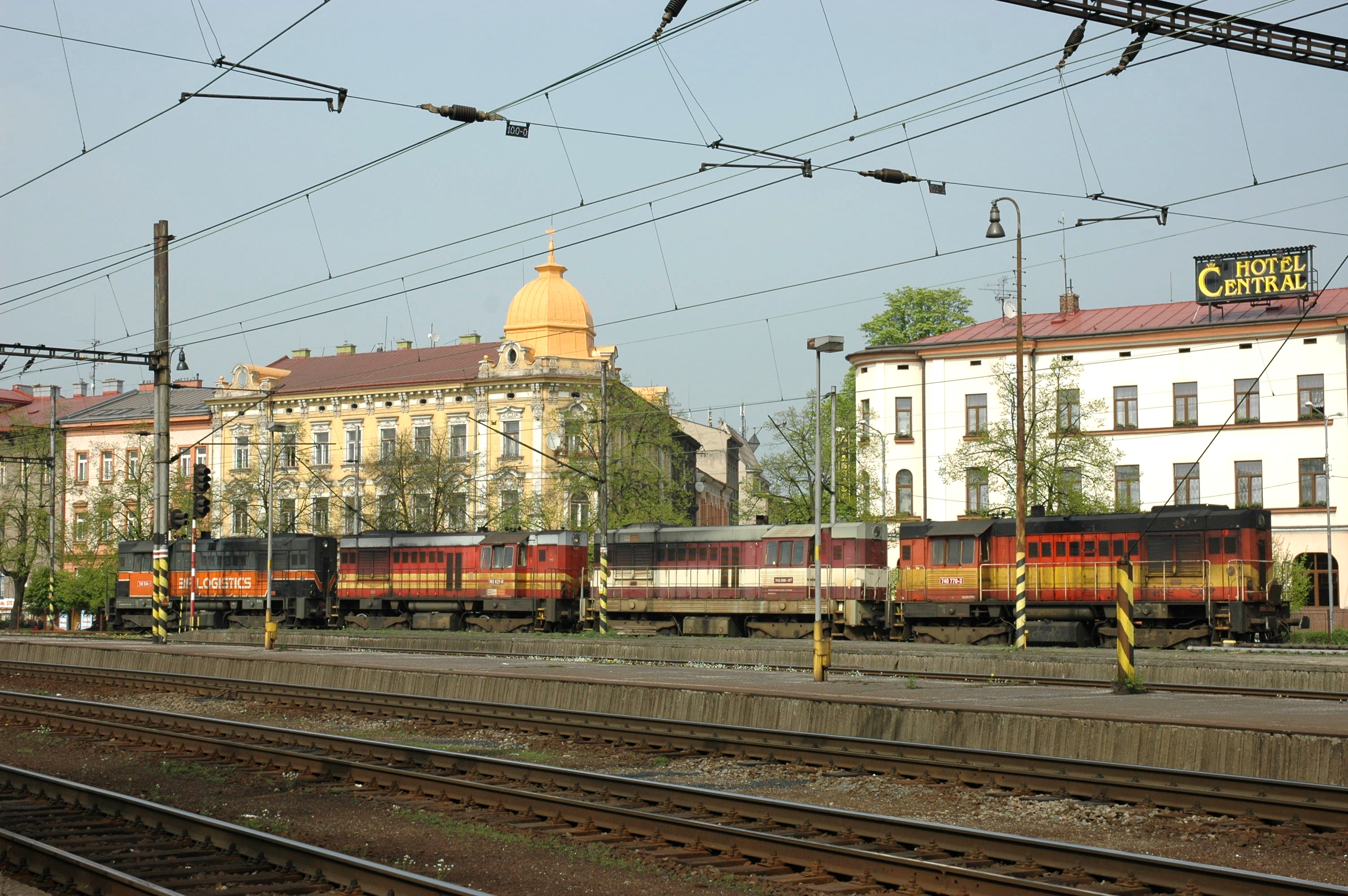 Locomotives 740.634, 740.621, 742.506 and 740.770 owned by LOKOTRANS SERVIS, operated by BF Logistics; Český Těšín station, Czech Republic